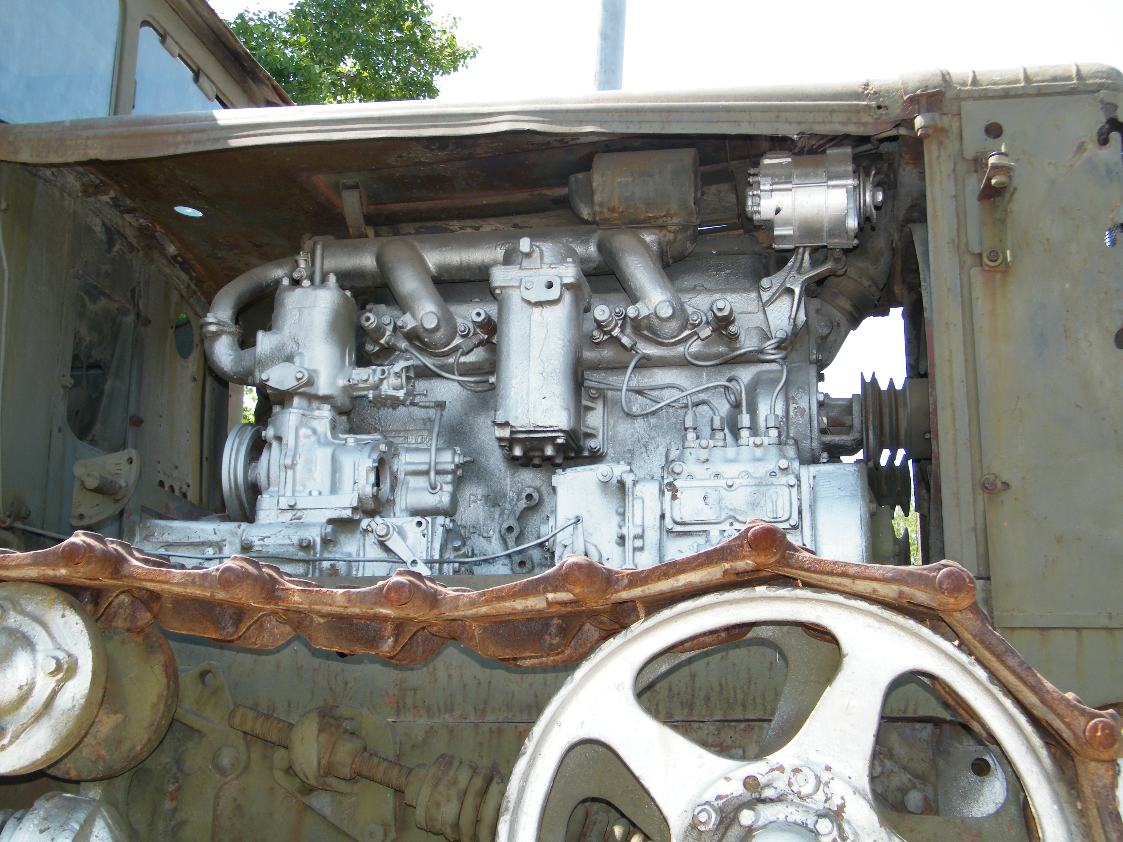 DT-54 tractor